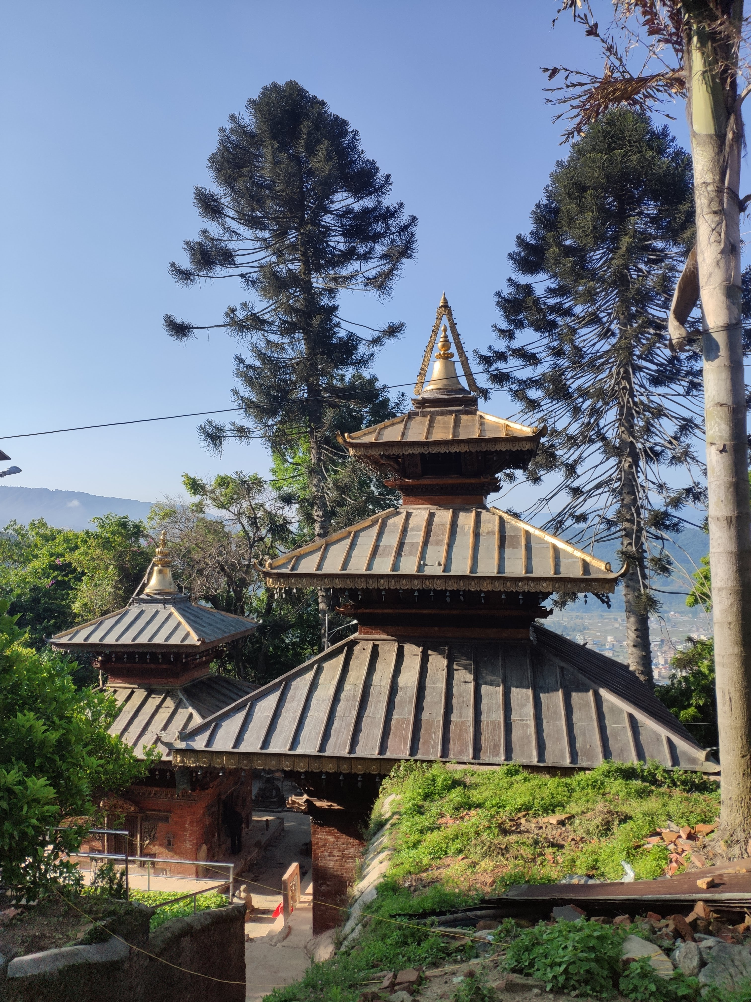 Bajrayogini Temple Roof